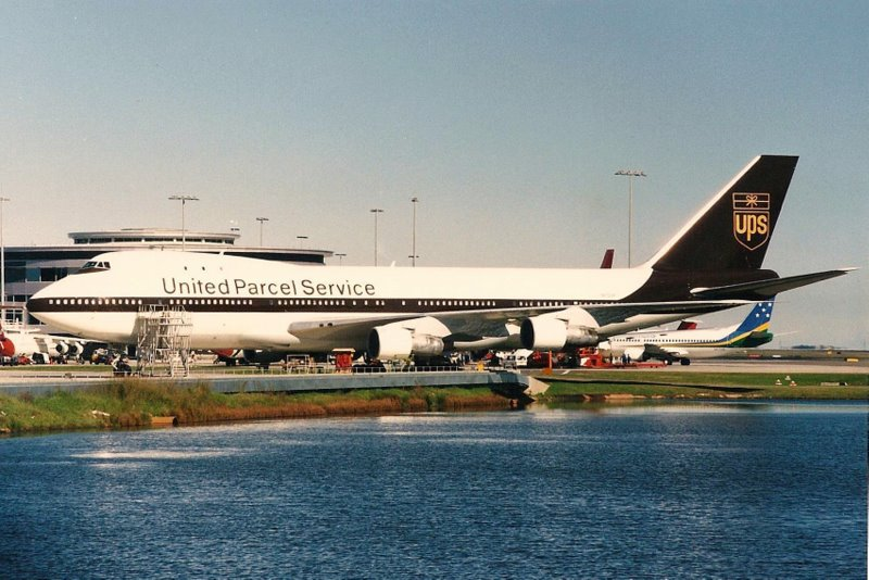 A Boeing 747-100 freighter of UPS Airlines parked at Sydney Airport in Australia, circa March 1998. Image scanned from a 6"x4" photograph of N672UP taken by YSSYguy c. March 1998.